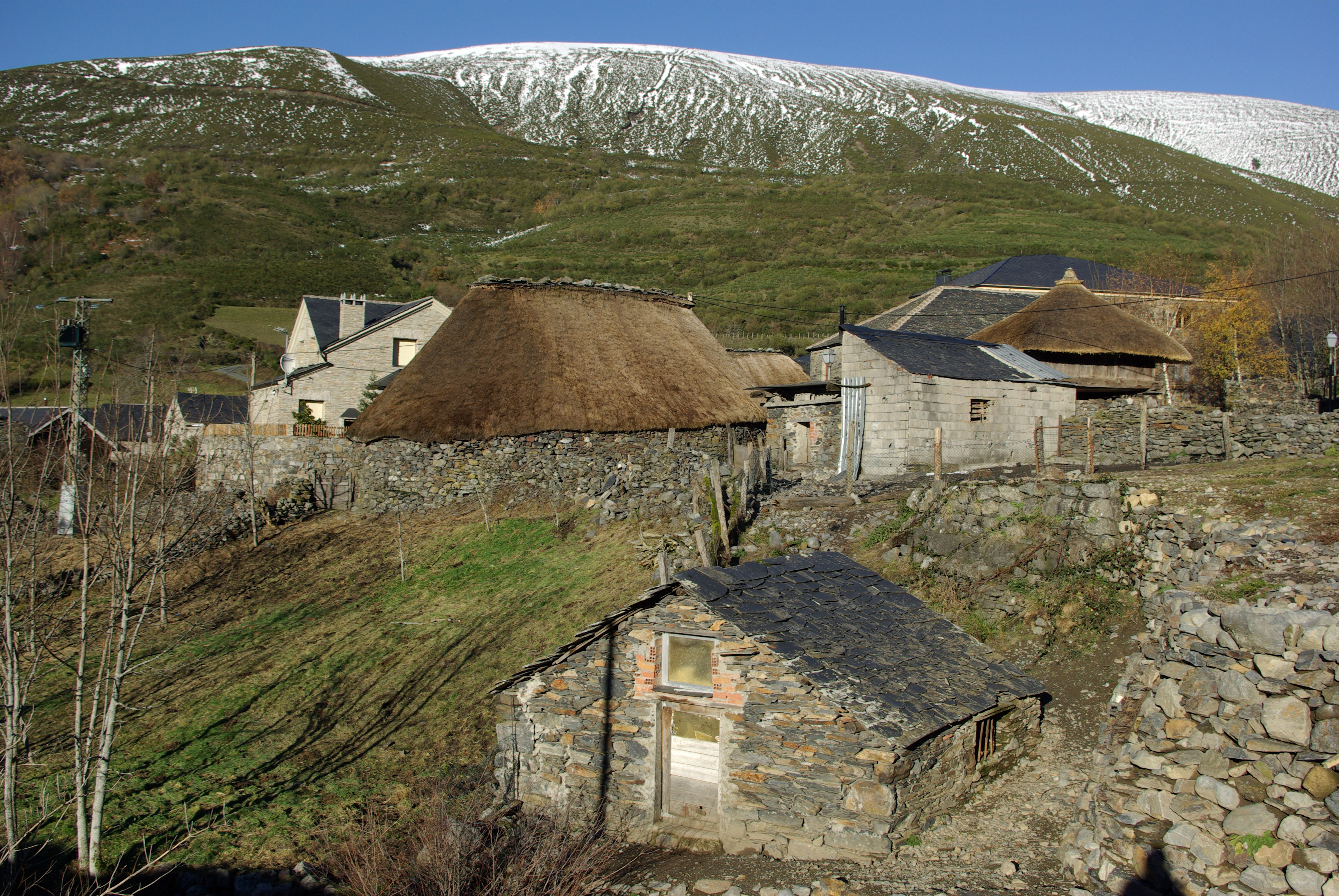 Balouta, landscape and village, Candín (León, Spain)